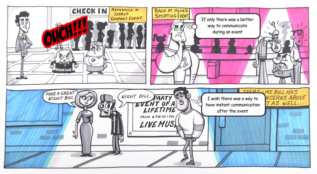 Snapshot of whiteboard animation video by Ydraw